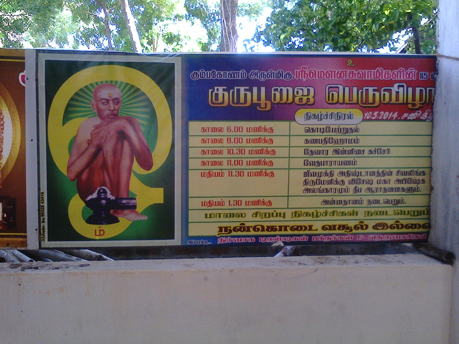 Mounasamy mutt கும்பகோணம் மௌனசுவாமி மடம்